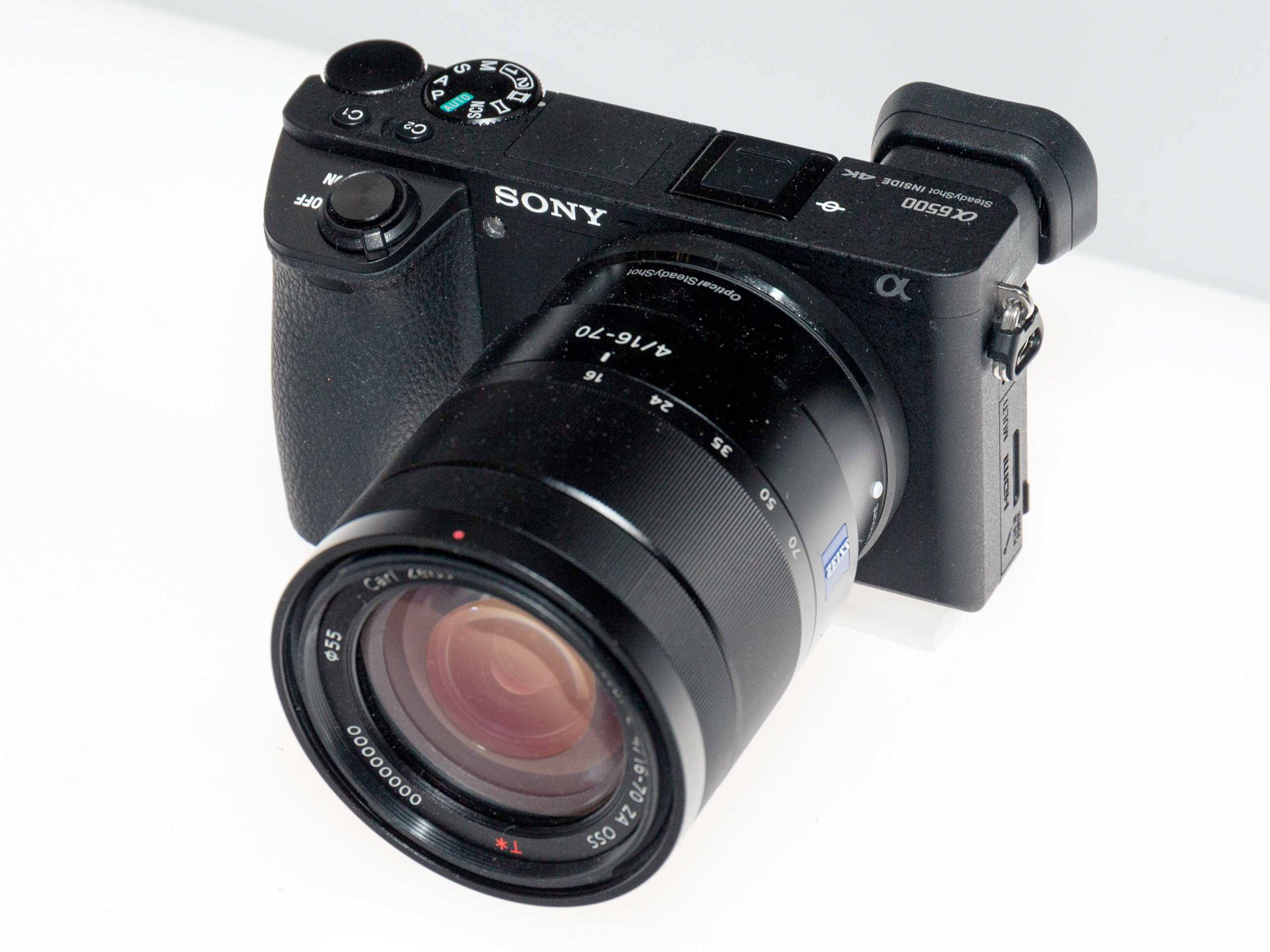 CP+ 2017: 2016 Sony Alpha 6500 (ILCE-6500)